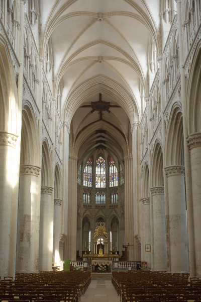 Basilique Cathédrale Notre-Dame; Sées, Basse-Normandie, Orne, France; ; ref: PM_093678_F_Sees; ; Photographer: Paul M.R. Maeyaert; © Paul M.R. Maeyaert; ; Cultural heritage; Cultural heritage/Cathedral; Europeana; Europe/France/Sées